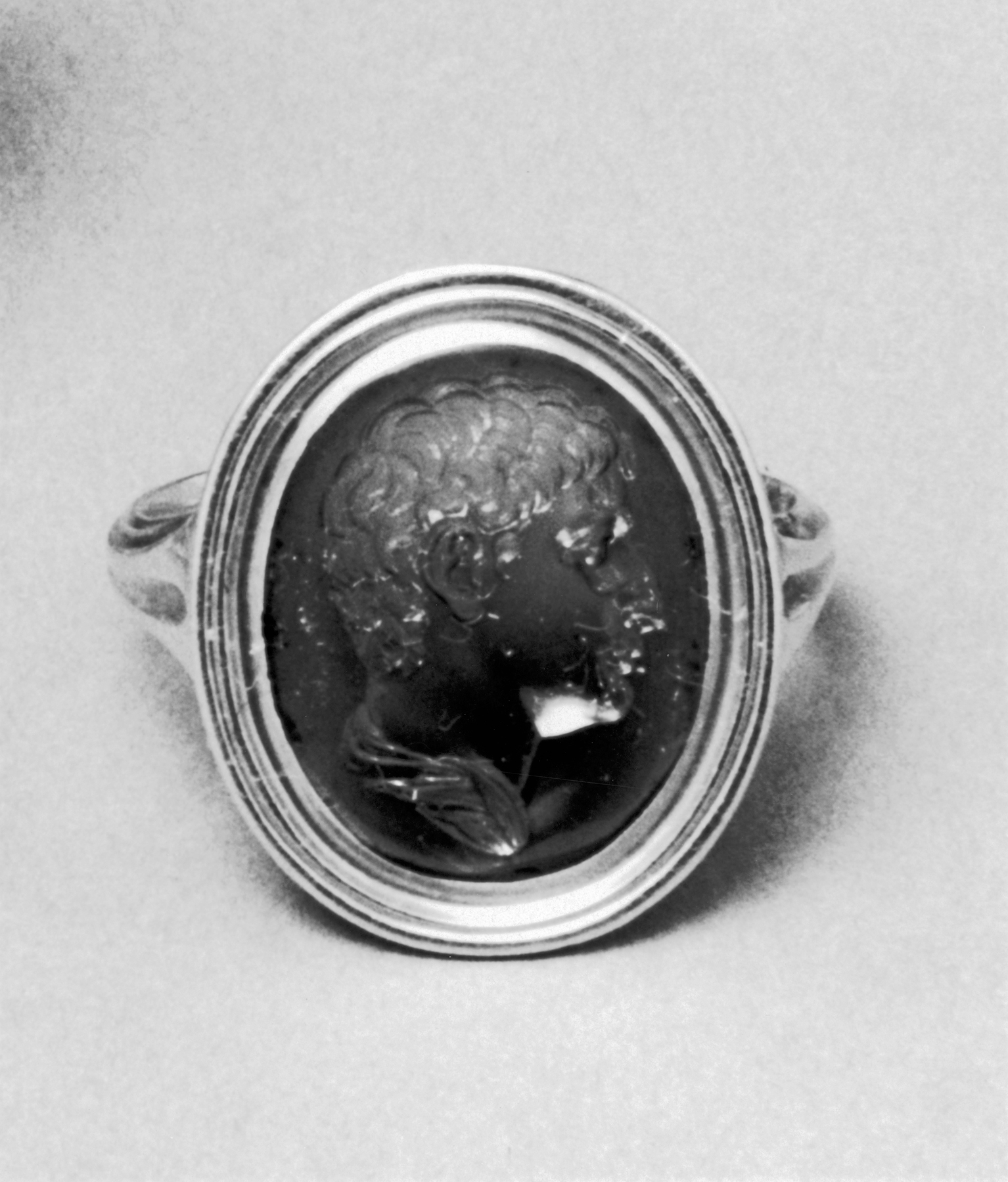 The intaglio representing Marcellus (42-23 BC), the nephew of Emperor Augustus, is attributed to Nathaniel Marchant, an English gem carver who worked in Rome from 1772 to 1788.